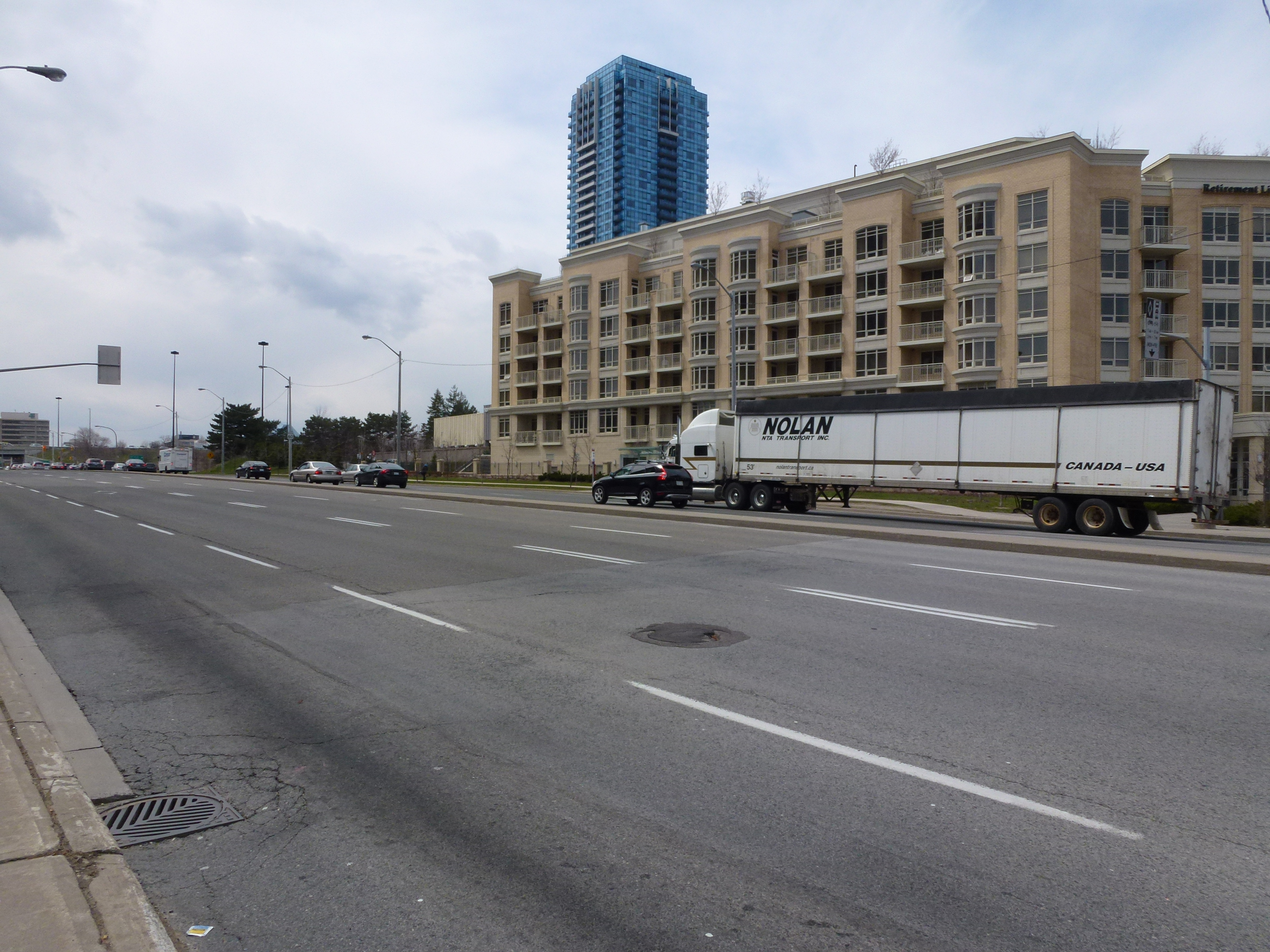 Parts of panoramas of intersections where there will be Eglinton Crosstown LRT stations, GPS embedded, taken 2013 04 25 (226).JPG On April 9, 2013, the day the first tunnel boring machine started to bore the Eglinton Crosstown, I bought a TTC day pass and got off to take "before" pictures of the site of every future underground station between Mount Dennis and Yonge Street. On April 25 I took "before" photos of the future sites of stations east of Yonge I plan to return for "after" pictures when the Crosstown opens in 2020. This photo was taken near the future site of the Wynford LRT station.